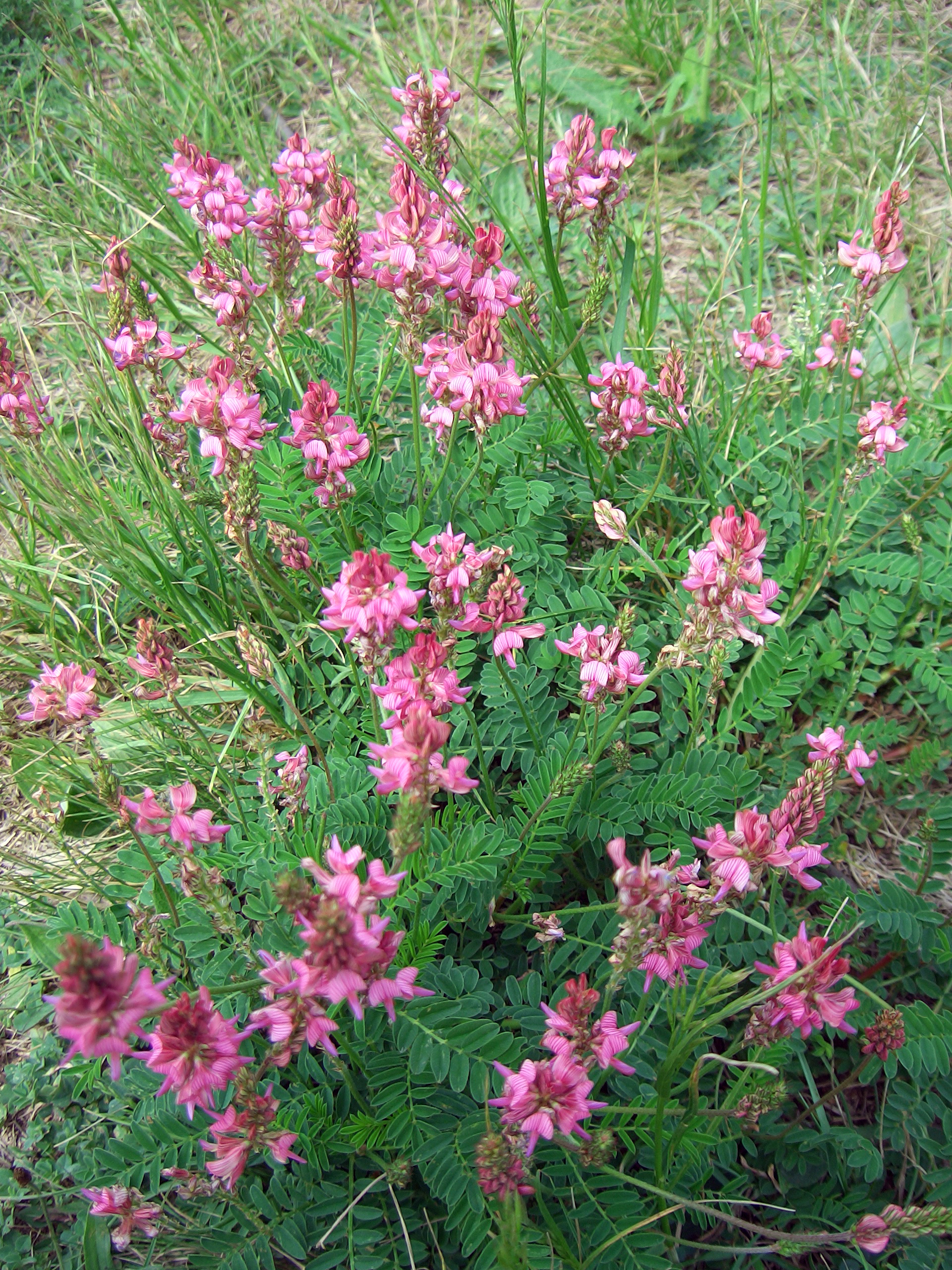 The valley and nature reserve Leutratal (in the environs of Jena), Thuringia, Germany: Common Sainfoin (Onobrychis viciifolia).